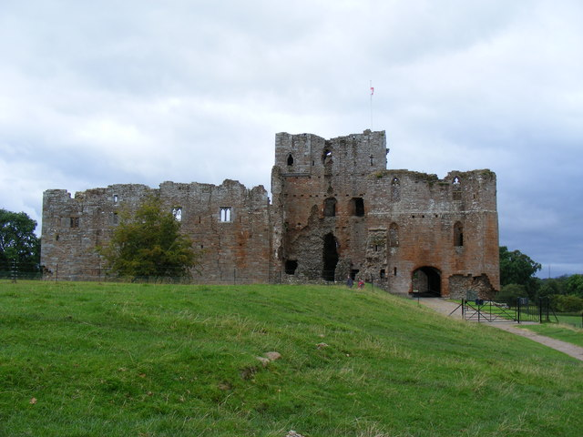 The east side of Brougham Castle, Cumbria. On the right side of the photo is the gatehouse, and immediately left of that is the keep. The land to the left of the pathway to the gatehouse has been terraced and used to have a garden.